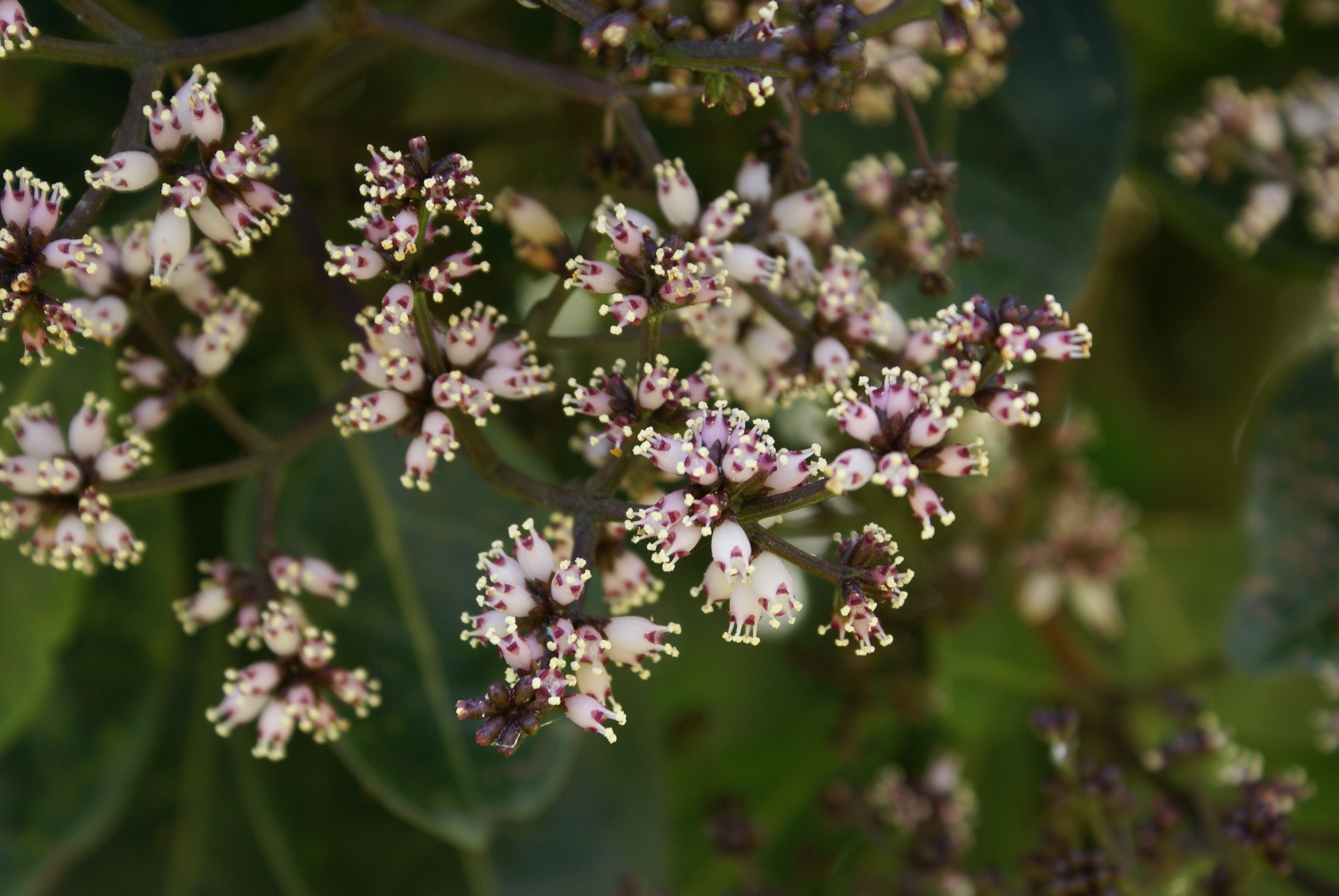 Flowers of Nuxia verticillata